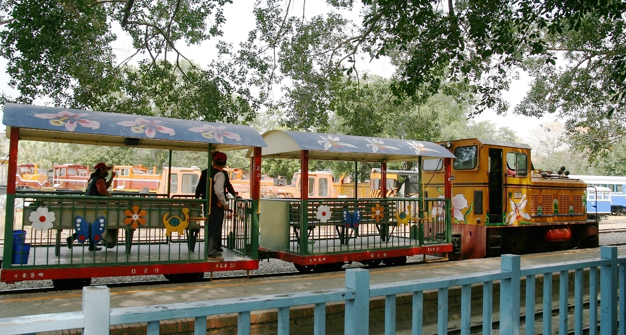 Wushulin Sugar Refiney Sightseeing Train